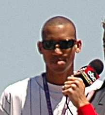 Reggie Miller interviewed before waving the green flag to start the race.